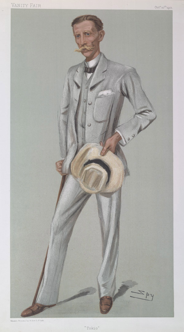 Men of the Day No. 825: Caricature of Sir CM Macdonald KCB. Caption read "Tokio".